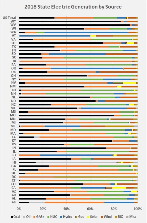 2018 Electric Generation by Source